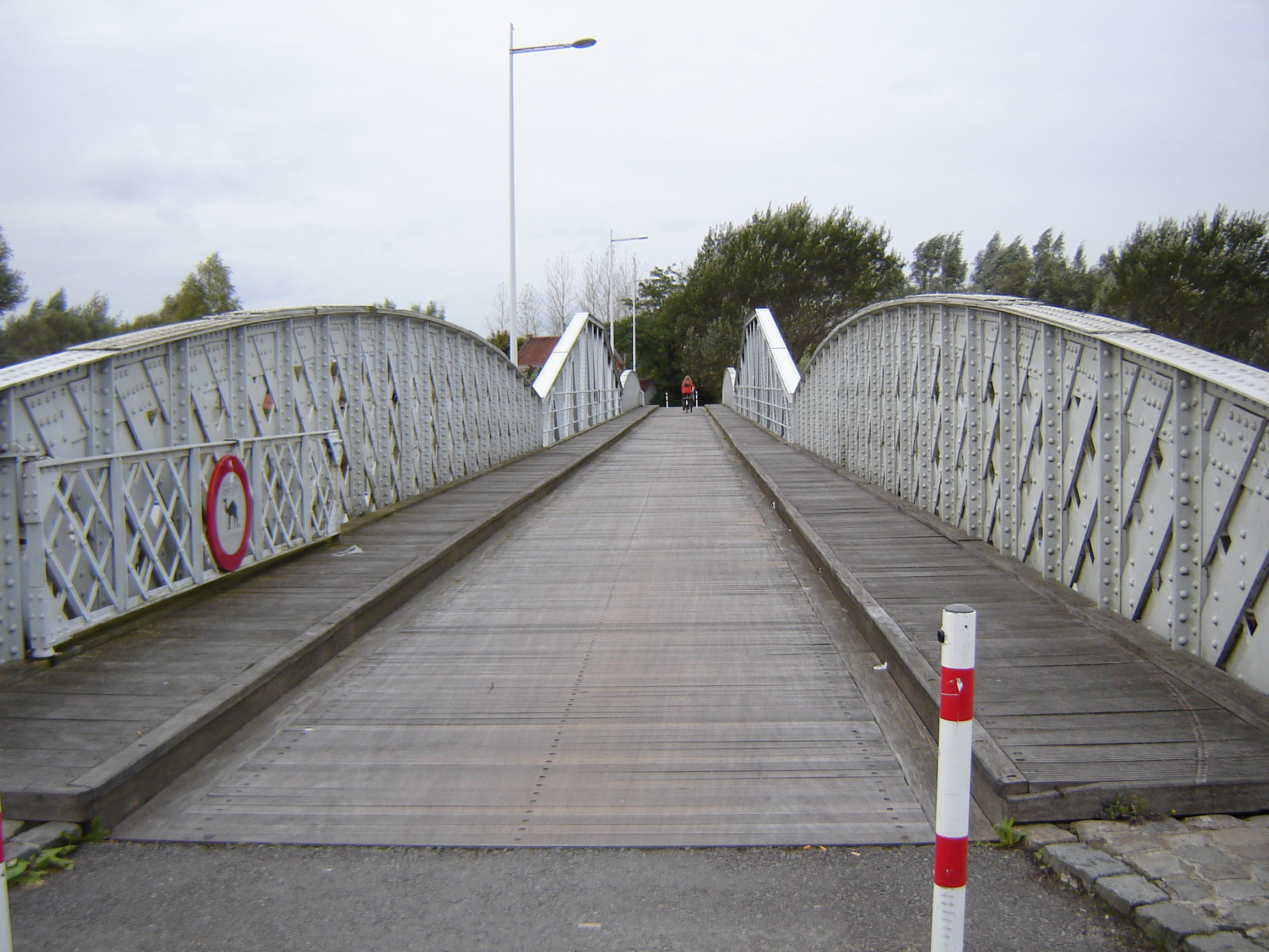 The Mirabrug bridge in Hamme. Hamme, East Flanders, Belgium